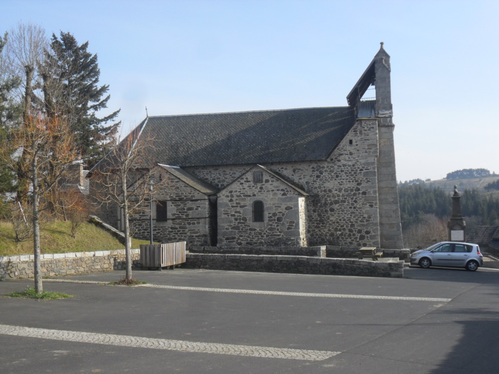 Church of Loubaresse (Cantal)